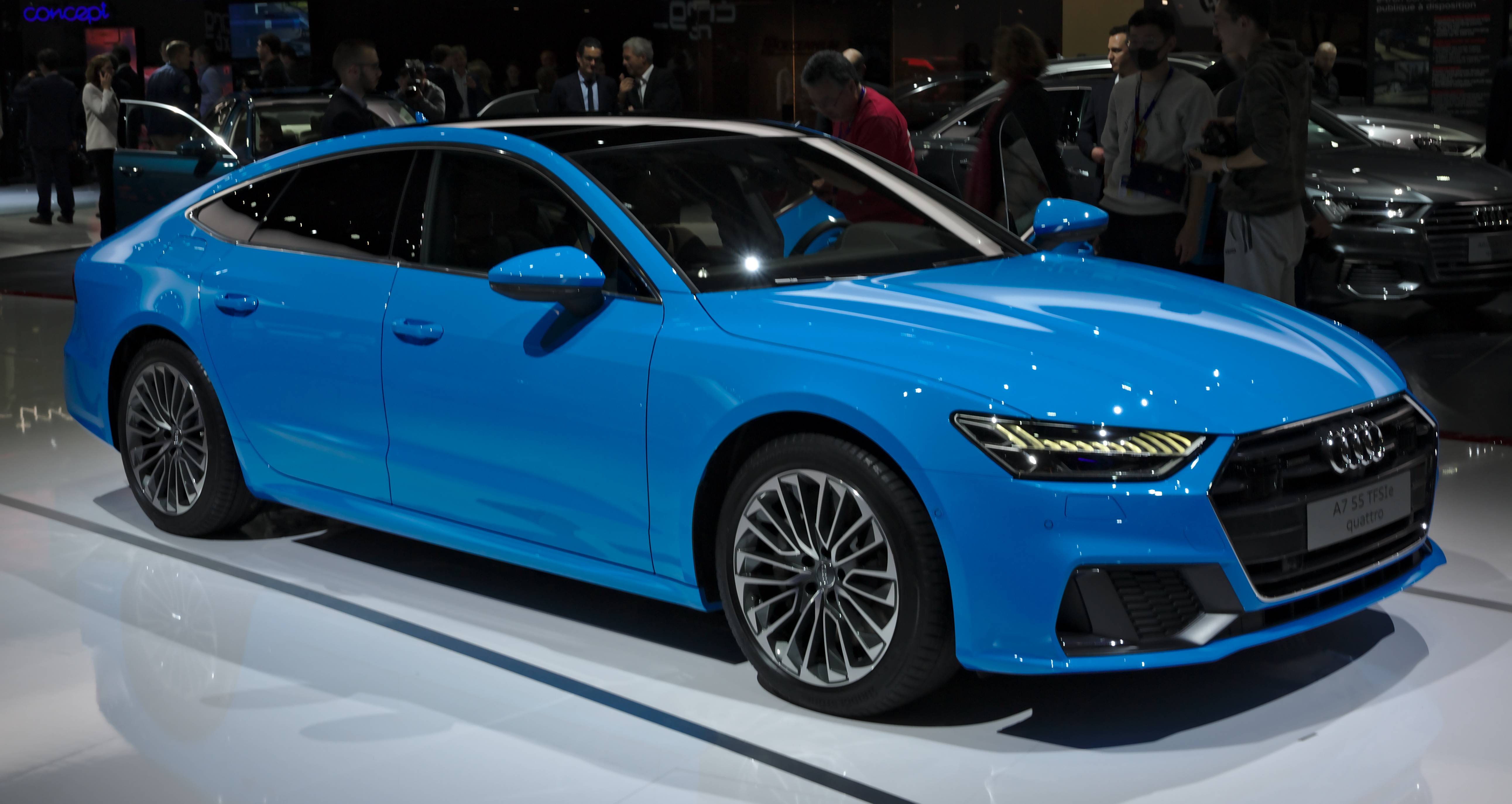 Audi A7 55 TFSIe Quattro at Geneva Motor Show 2019